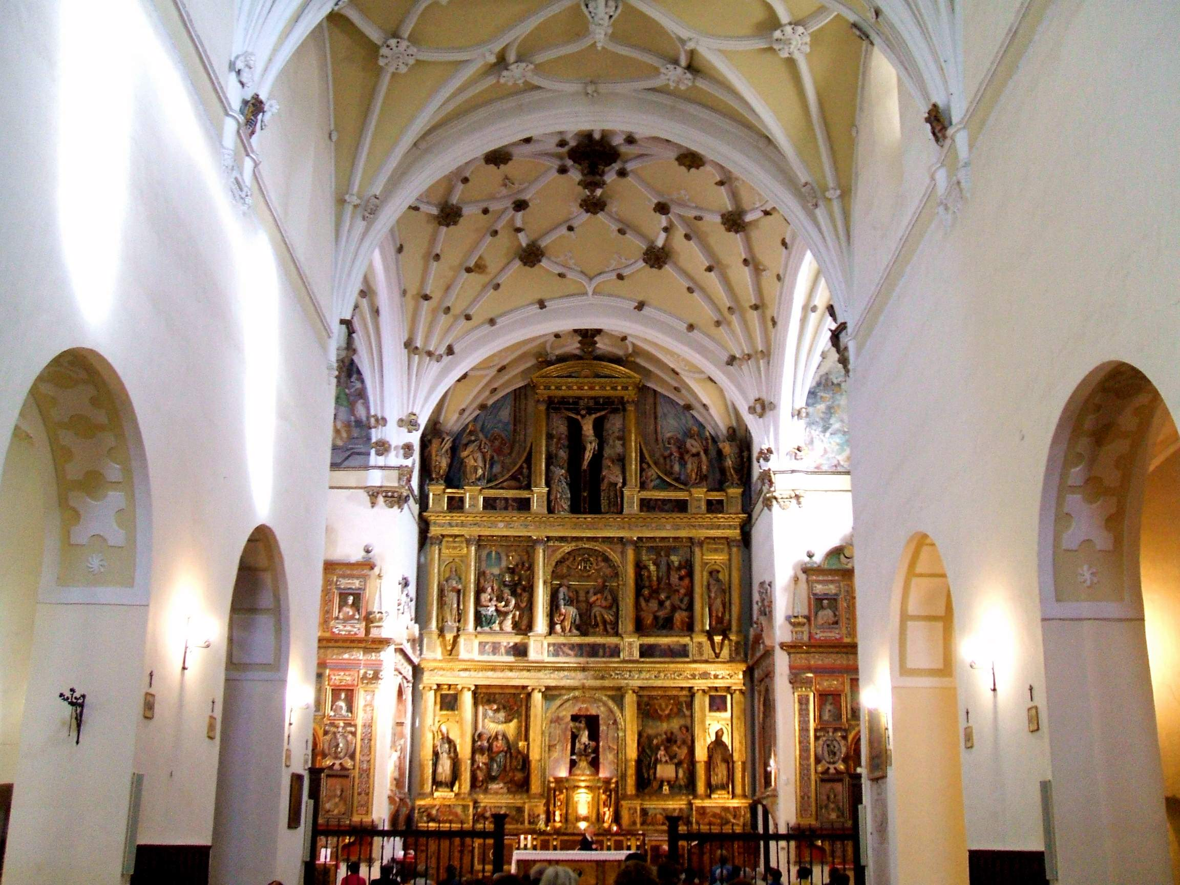 Church of Santiago el Real, Medina del Campo (Valladolid)